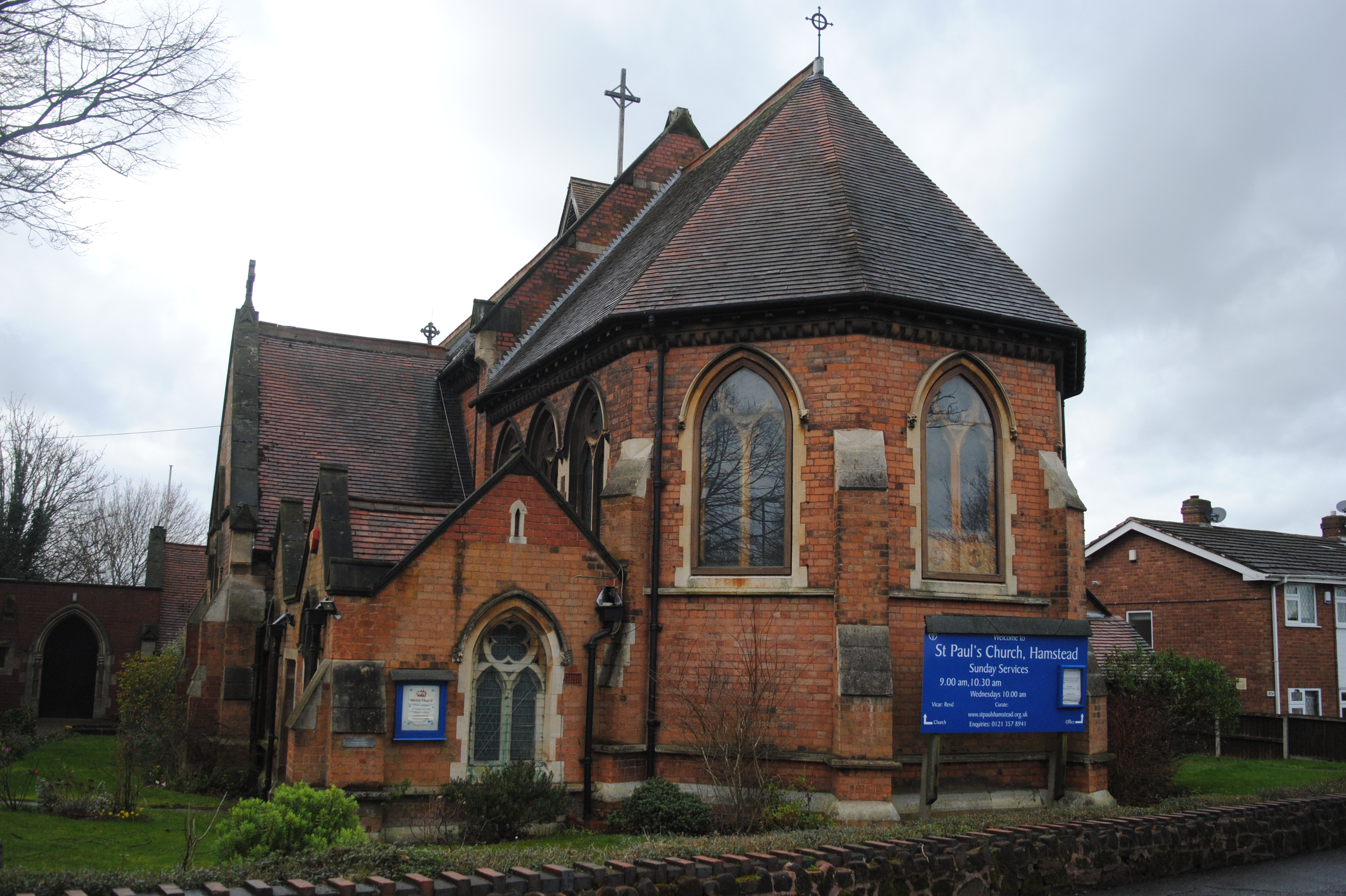 Saint Paul's Church, Hamstead, Birmingham, on a grey, wet day.